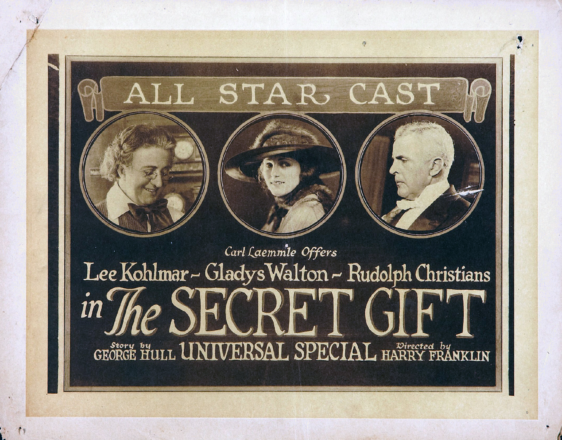 Lobby card for the American drama film The Secret Gift (1920) with Lee Kohlmar, Gladys Walton, and Rudolph Christians.